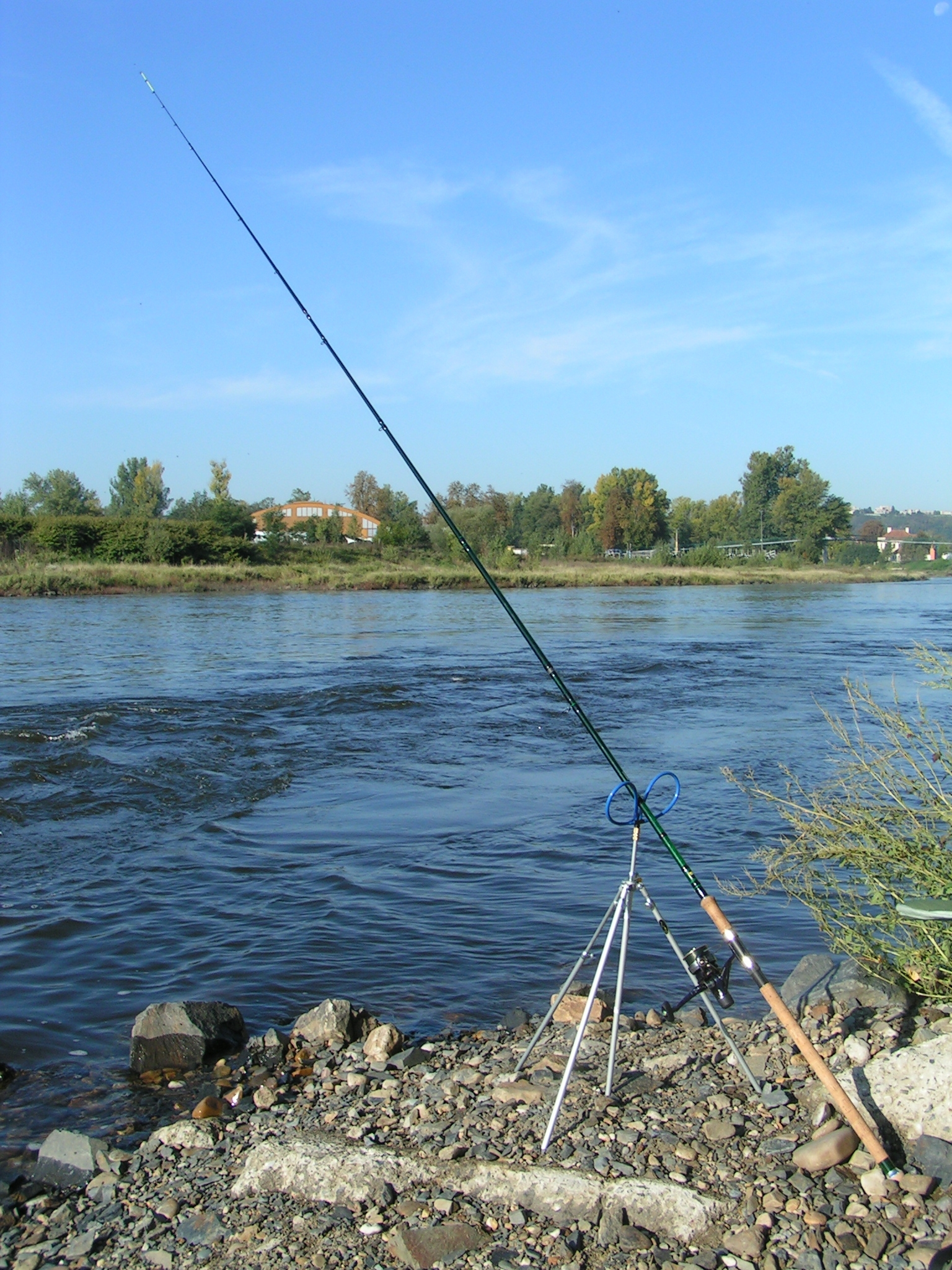 Fishing with a feeder rod